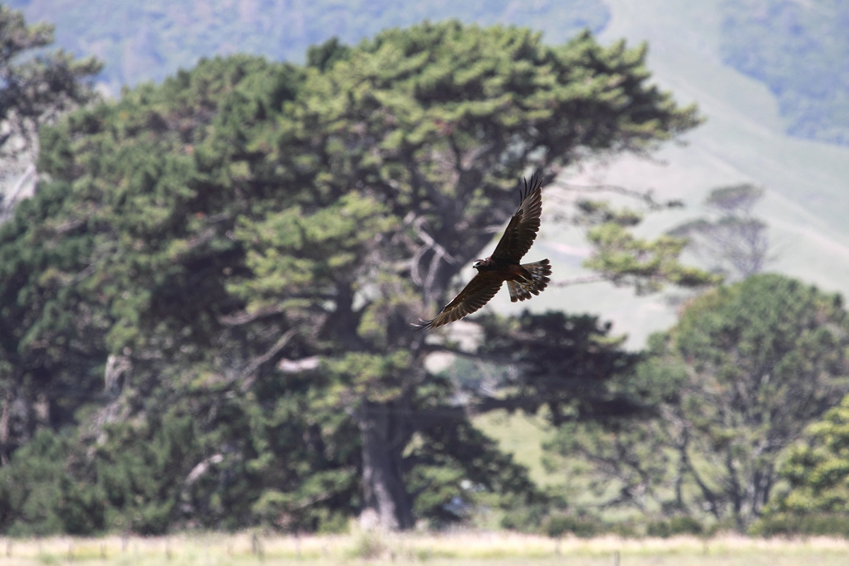 A Kahu or Swamp Harrier (Circus approximans gouldi) is well camouflaged against the backdrop of trees. Heat haze rising from the ground has distorted the background scenery.